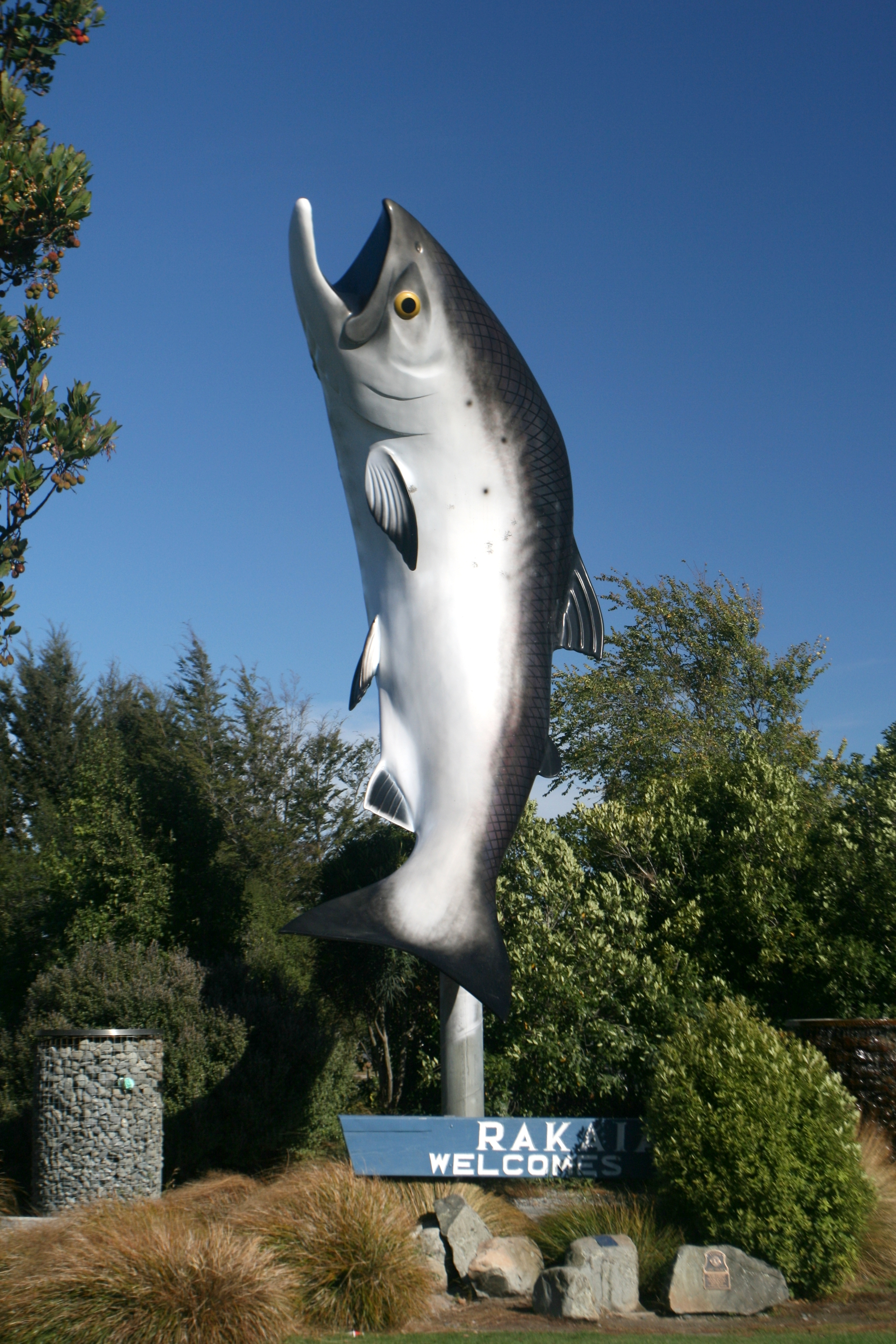 Rakaia fish statue